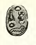 Picture of a scarab bearing the name Hedjkheperre Setepenre, believed by Flinders Petrie to refers to pharaoh Smendes of the 21st dynasty, Third Intermediate Period.